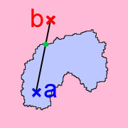 Illustration of a consequence of the Jordan curve theorem